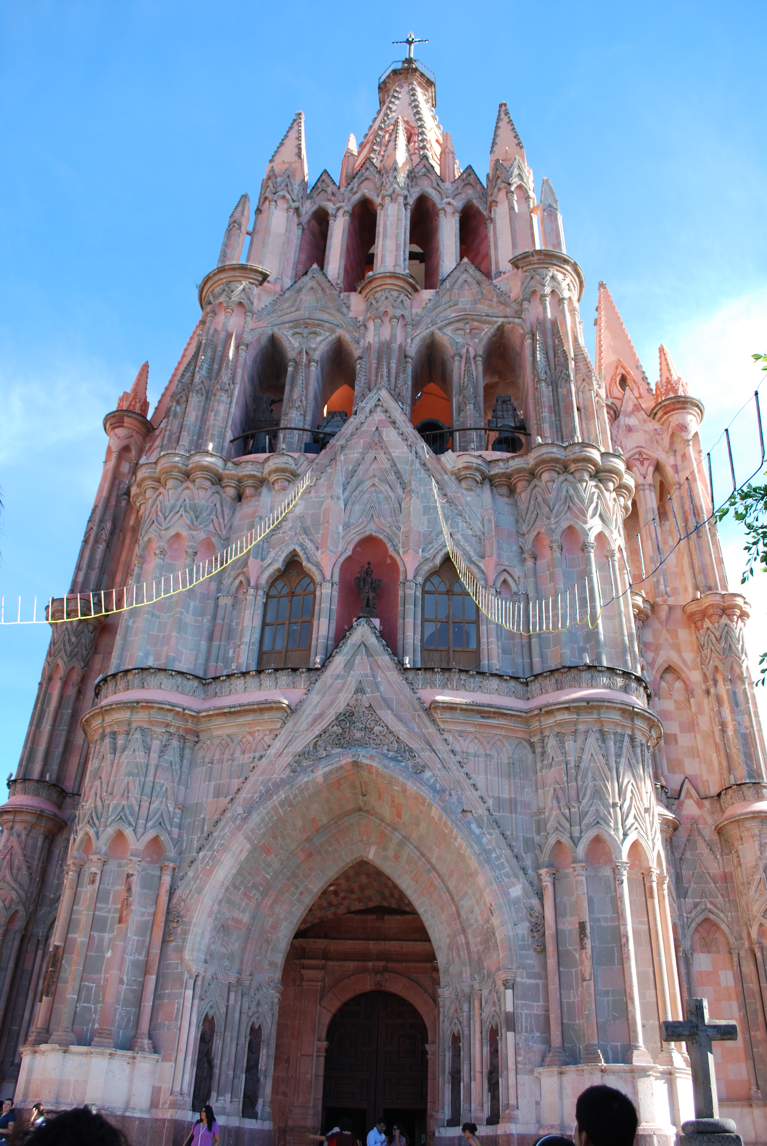 Facade of the parish of San Miguel in San Miguel de Allende, Guanajuato, Mexico